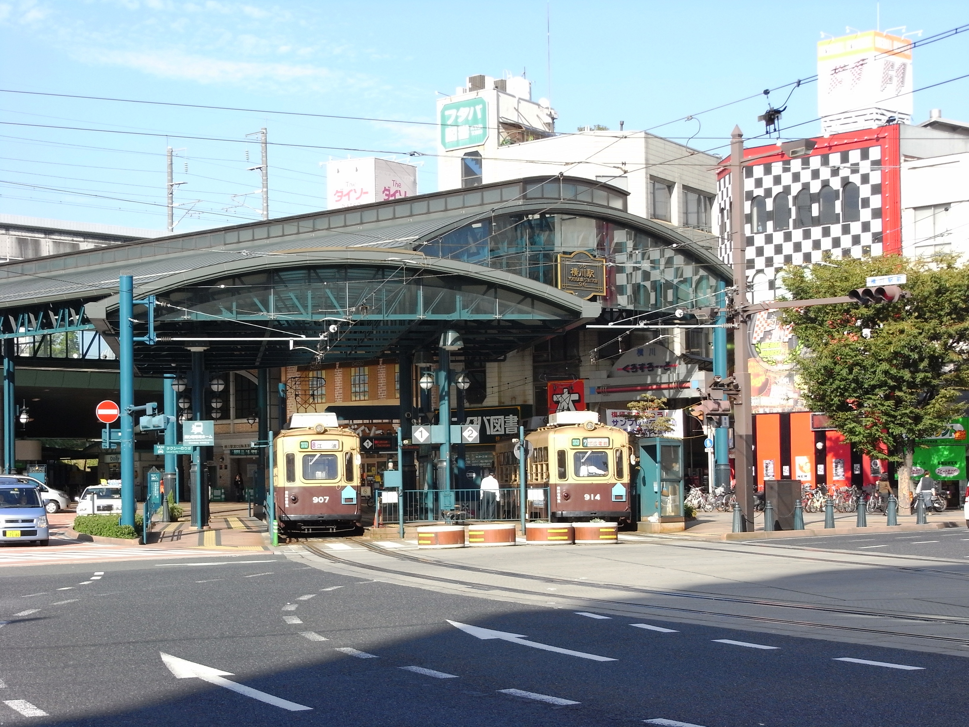 Hiroshima Electric Railway Yokogawa Station